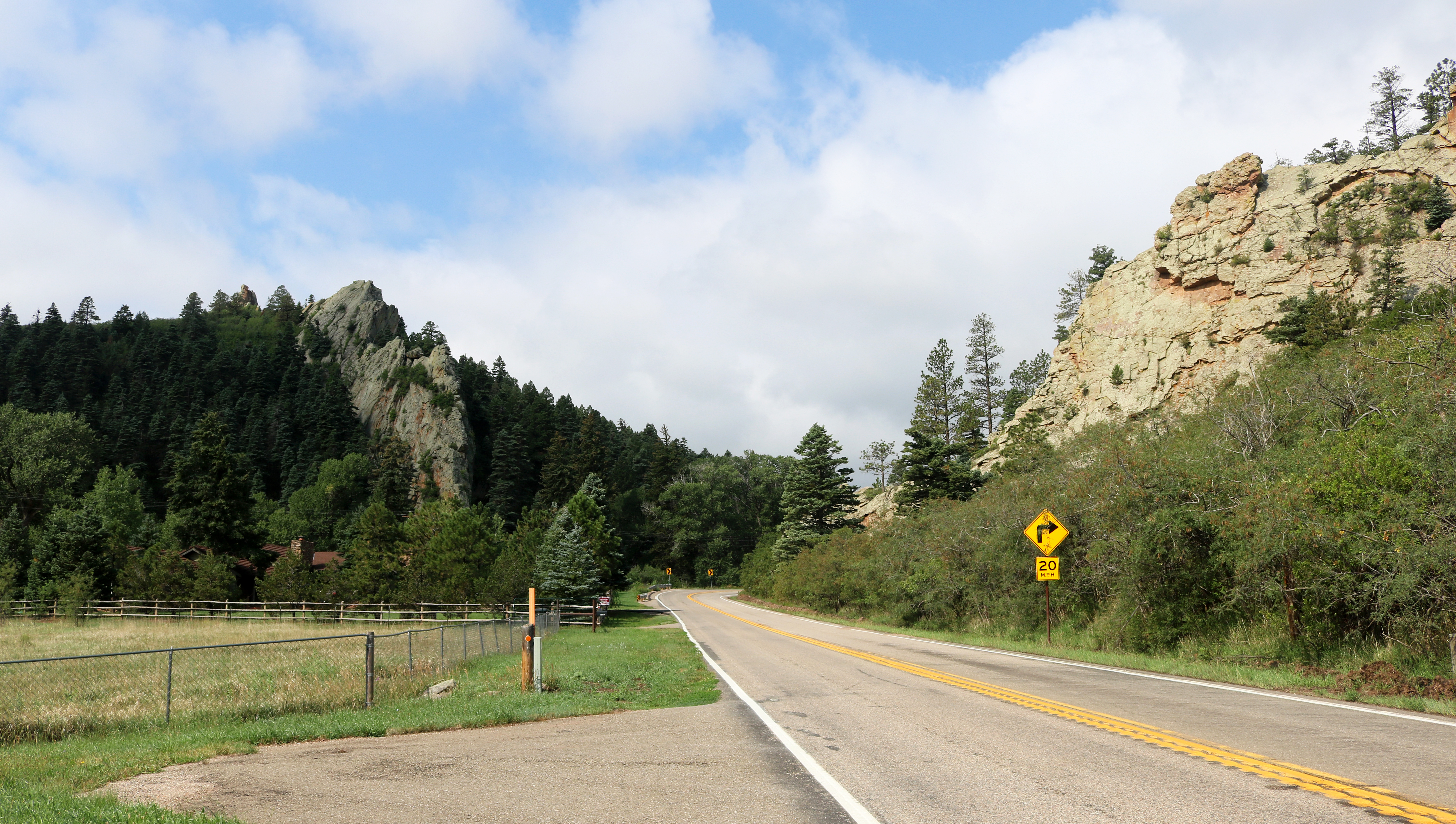 "The Gap," an opening in uplifted Dakota sandstone on Colorado State Highway 12 just north of Cuchara, Colorado.